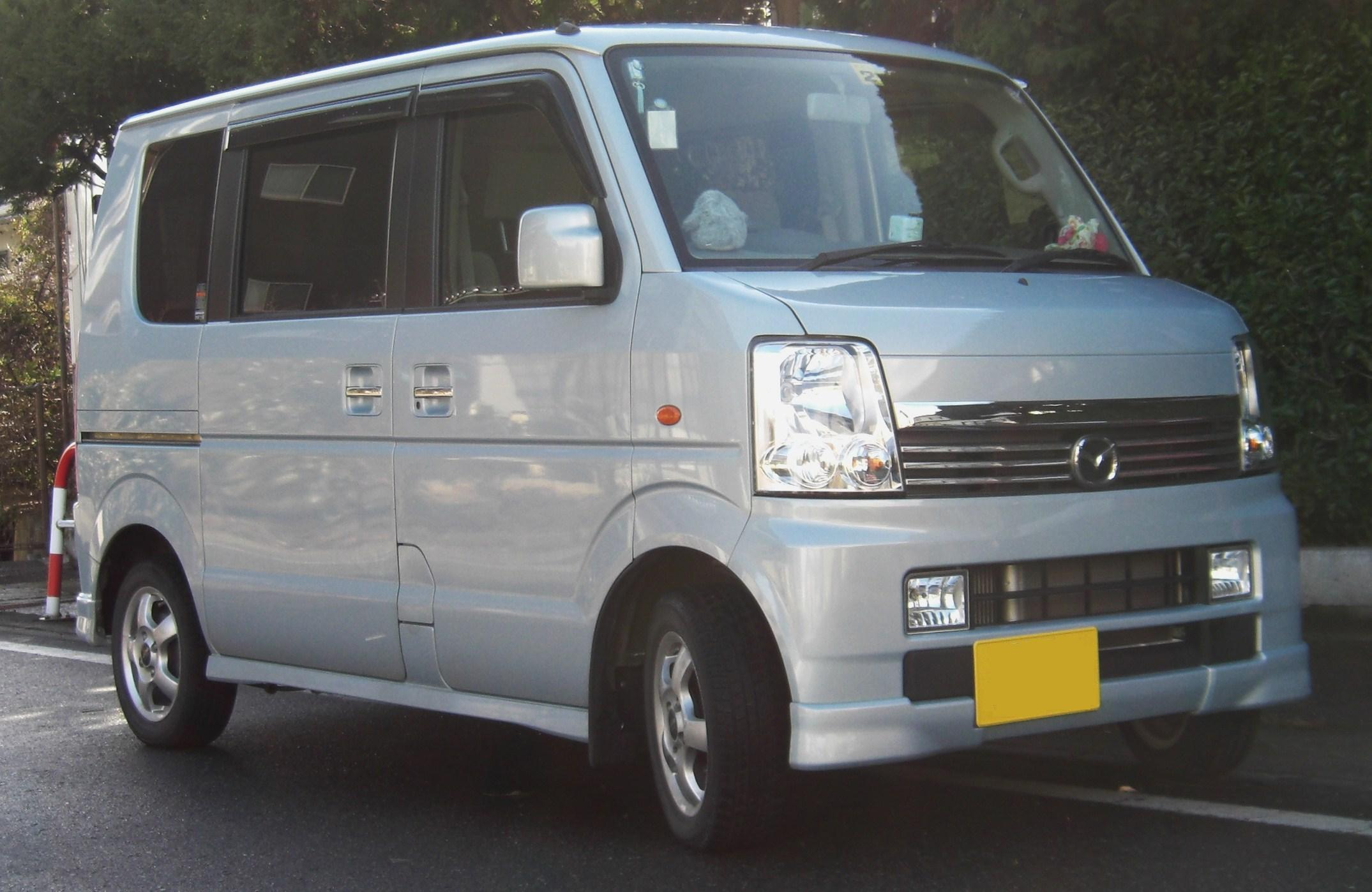 Mazda Scrum